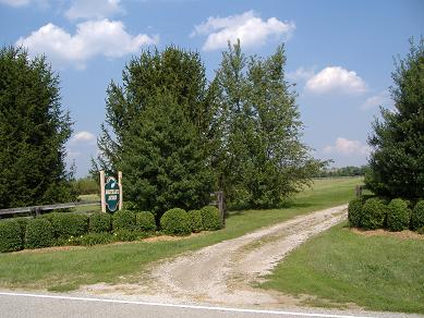 The entrance to what was the Bottorff-McCullogh Farm, located outside Charlestown.